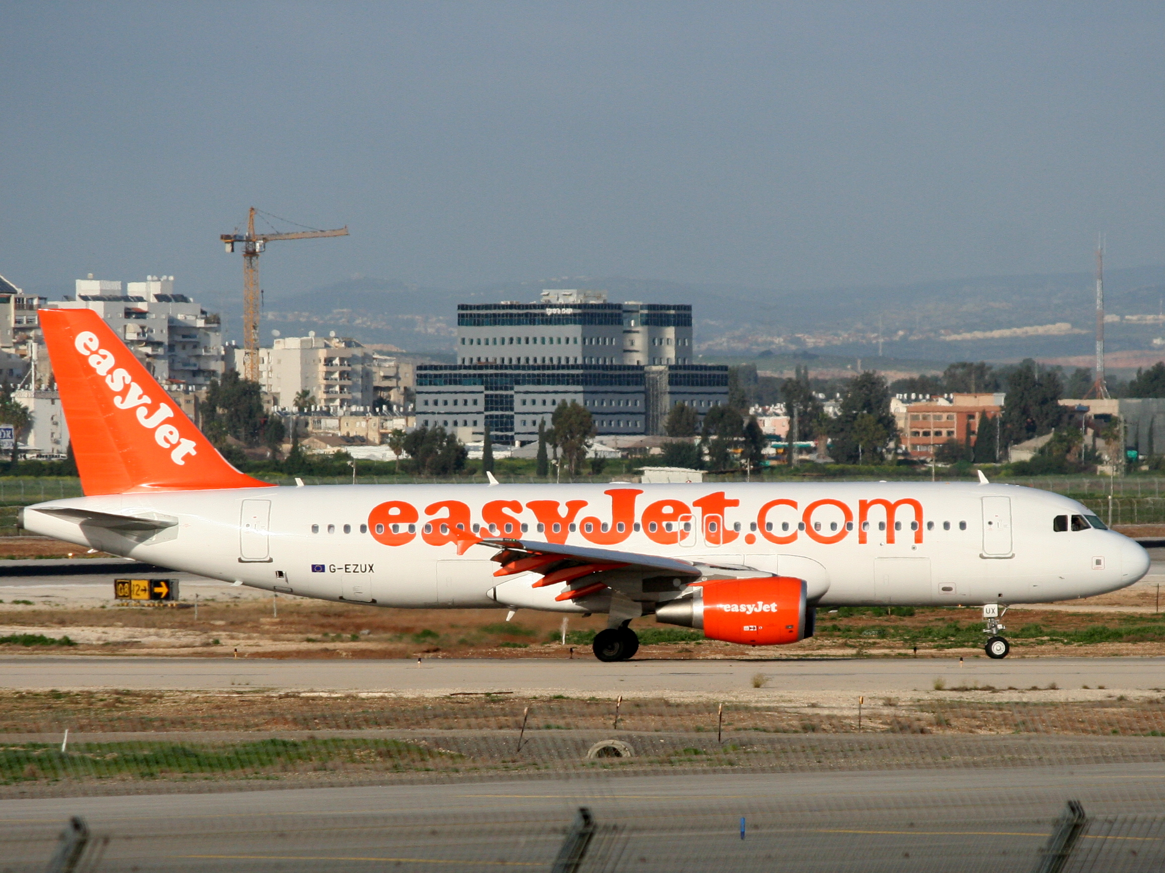 Spotting at Ben Gurion International airport